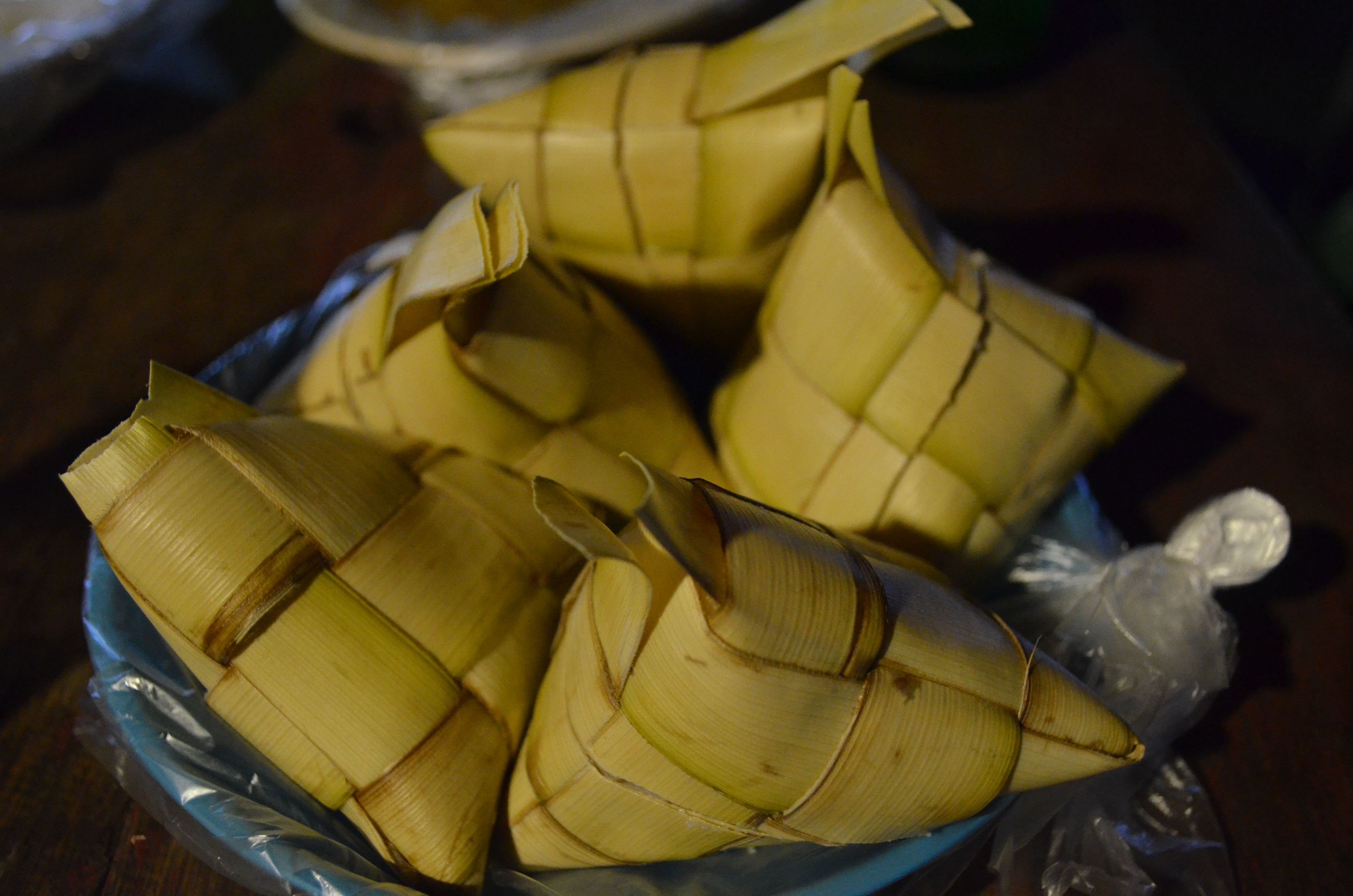 A puso of cooked rice sold at downtown Tacloban City, Philippines